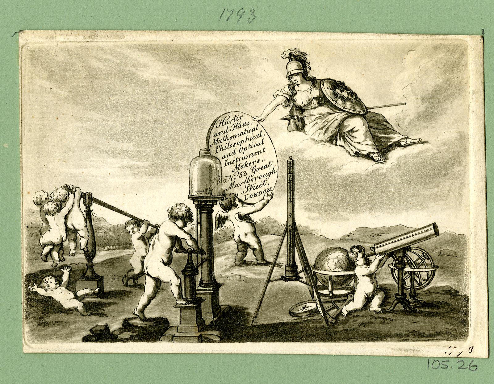 DRAFT Trade card of Hurter and Haas, scientific instrument makers